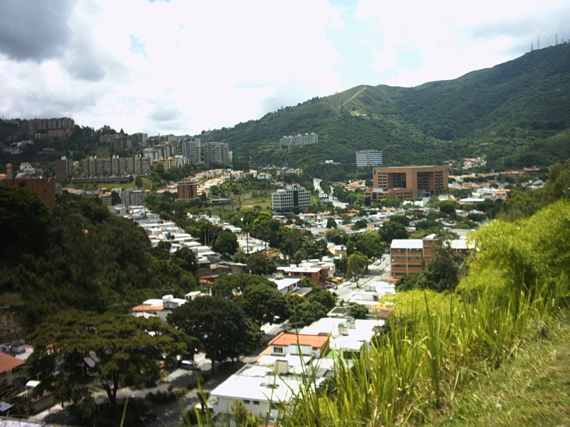 I´m the author of this photo, i take it in August 2006. Guillermo Ramos Flamerich